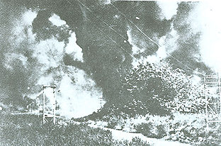 Before the landing of Japanese forces in Miri, the Brooke government destroyed Lutong oil refinery and oil storage facilities. This has caused the horrifying scene of black smoke billowing into the sky.